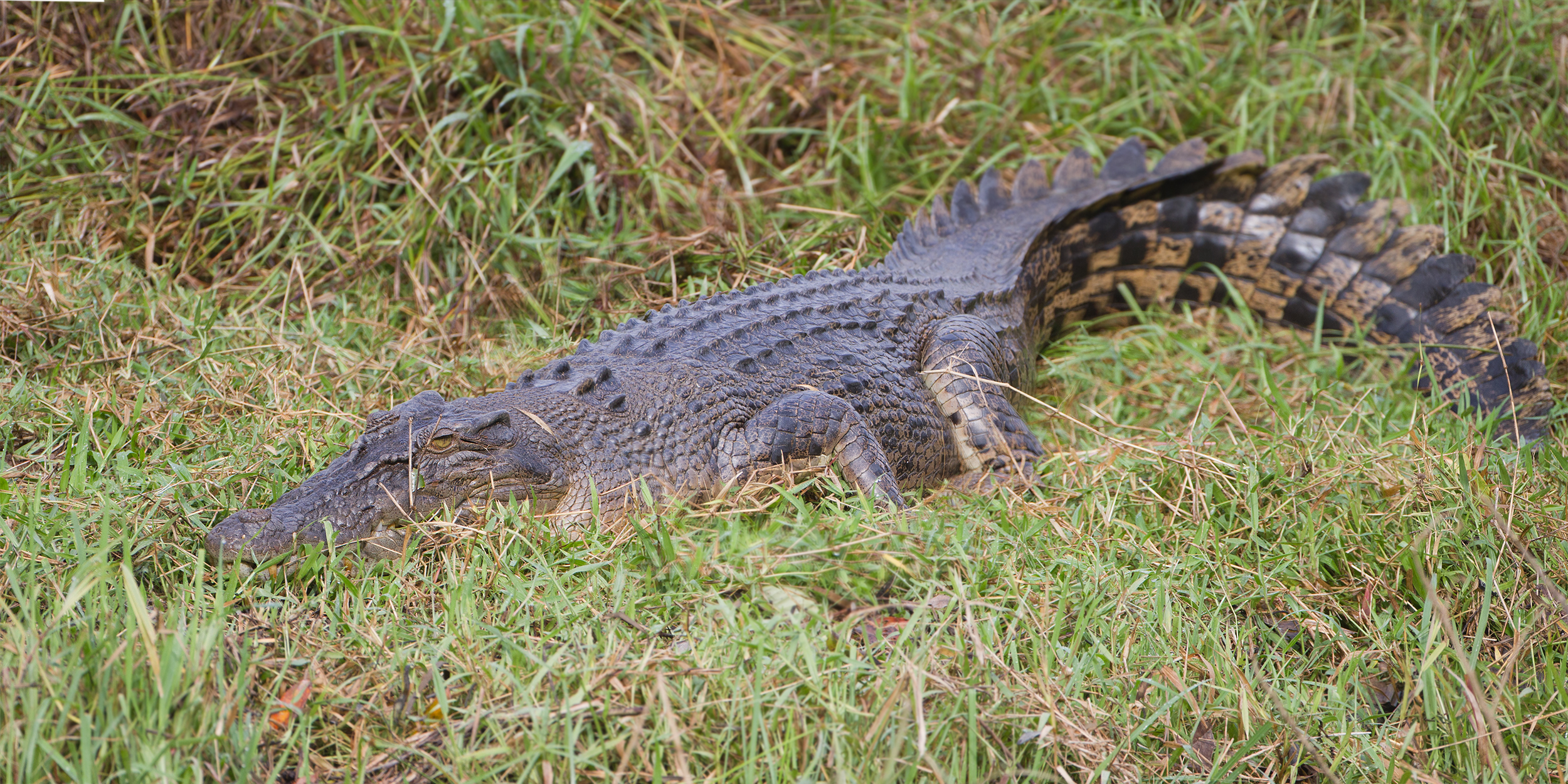 Saltwater crocodile (Crocodylus porosus), Daintree River, Queensland, Australia